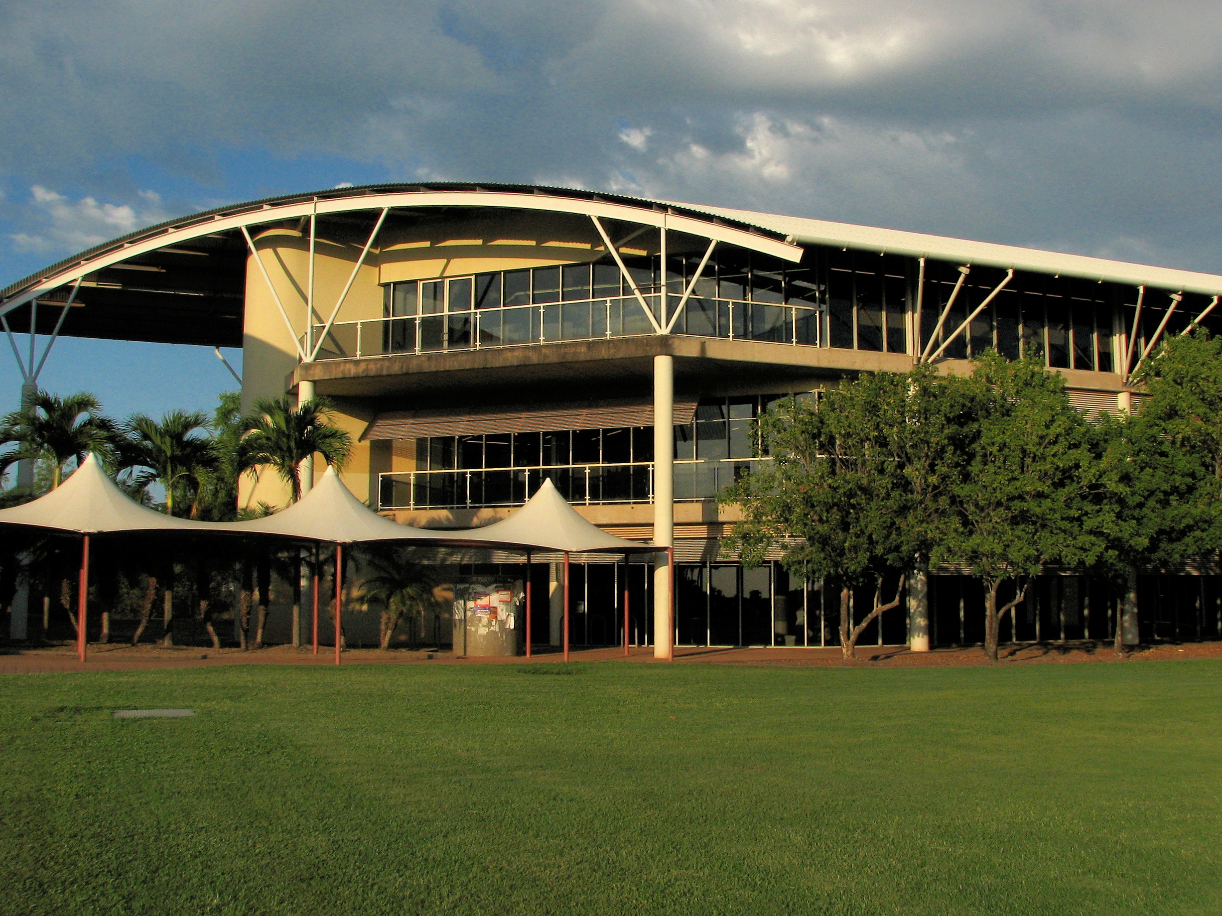 The library of Charles Darwin University, Casuarina campus